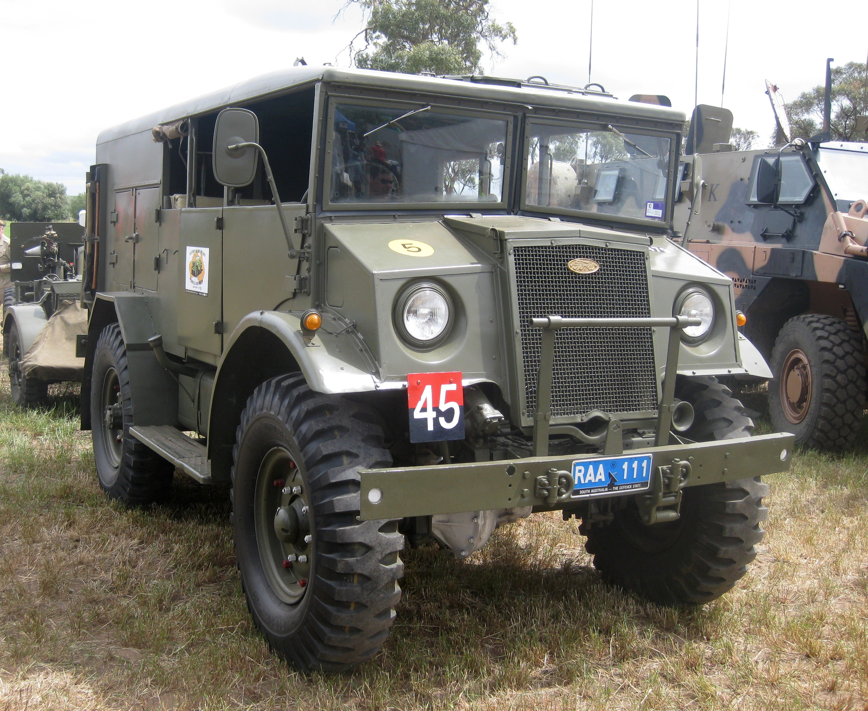 Ford CMP Blitz Truck at the Barossa Air Show in South Australia. This particular truck is a gun tractor and is shown with a QF 25 pounder gun and limber attached and is owned by the Military Vehicle Preservation Society of South Australia.